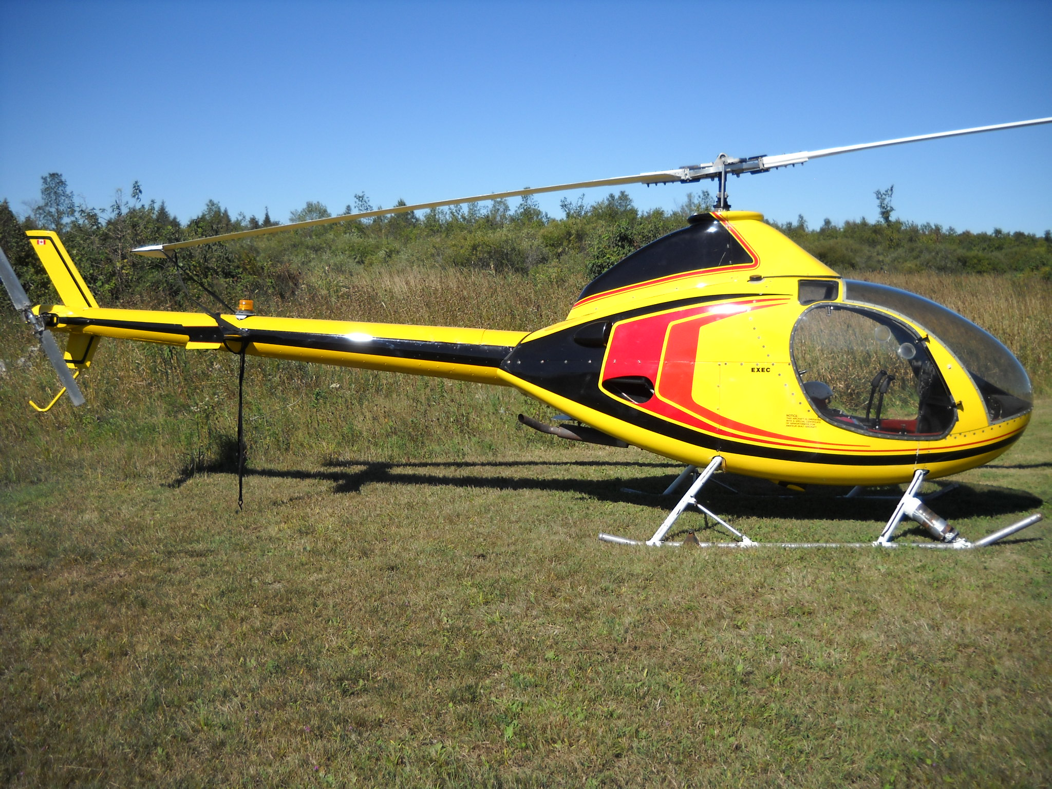 A Rotorway Exec at the Carleton Place, Ontario, Canada Fly-in